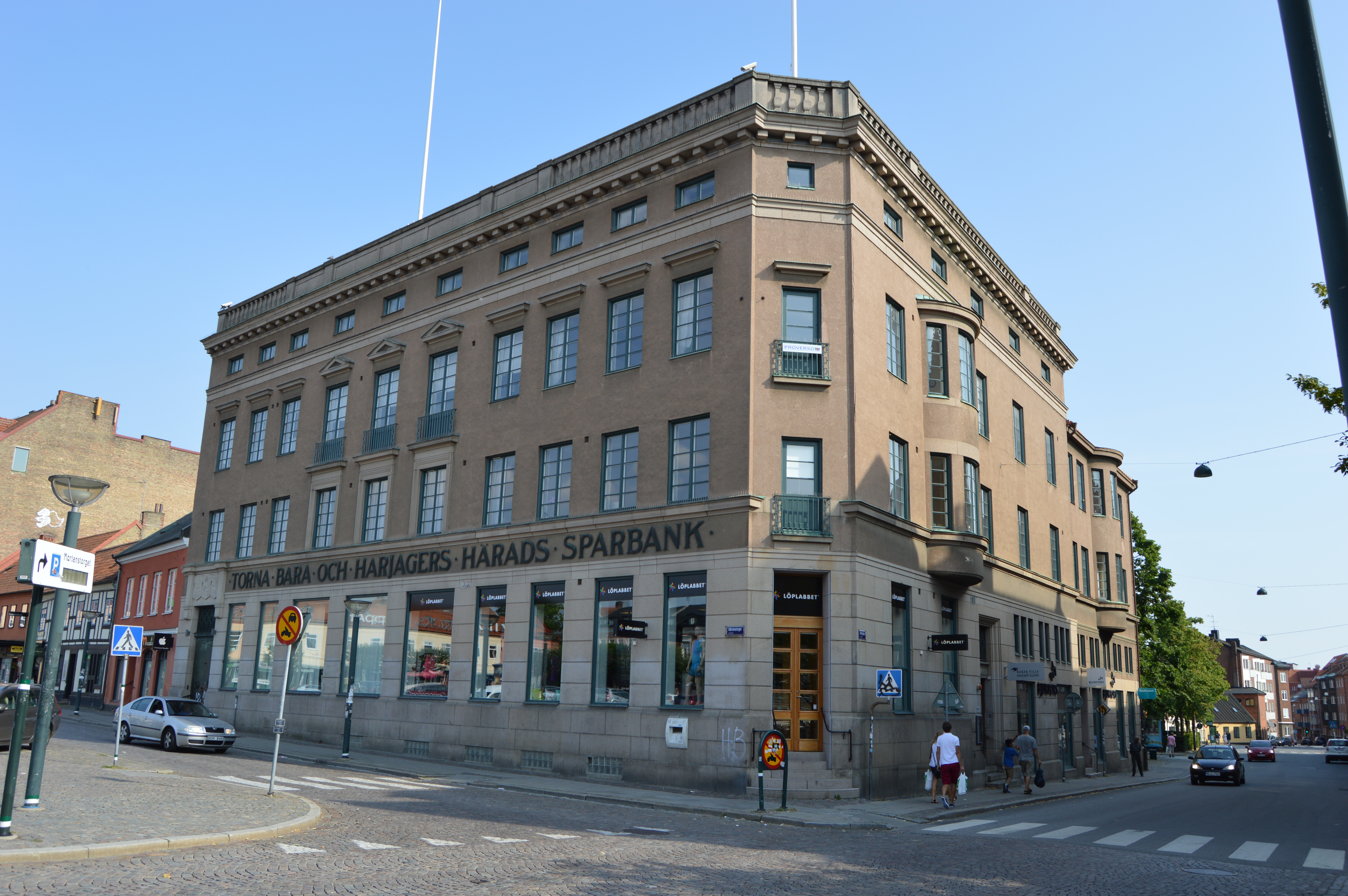 Building in Lund